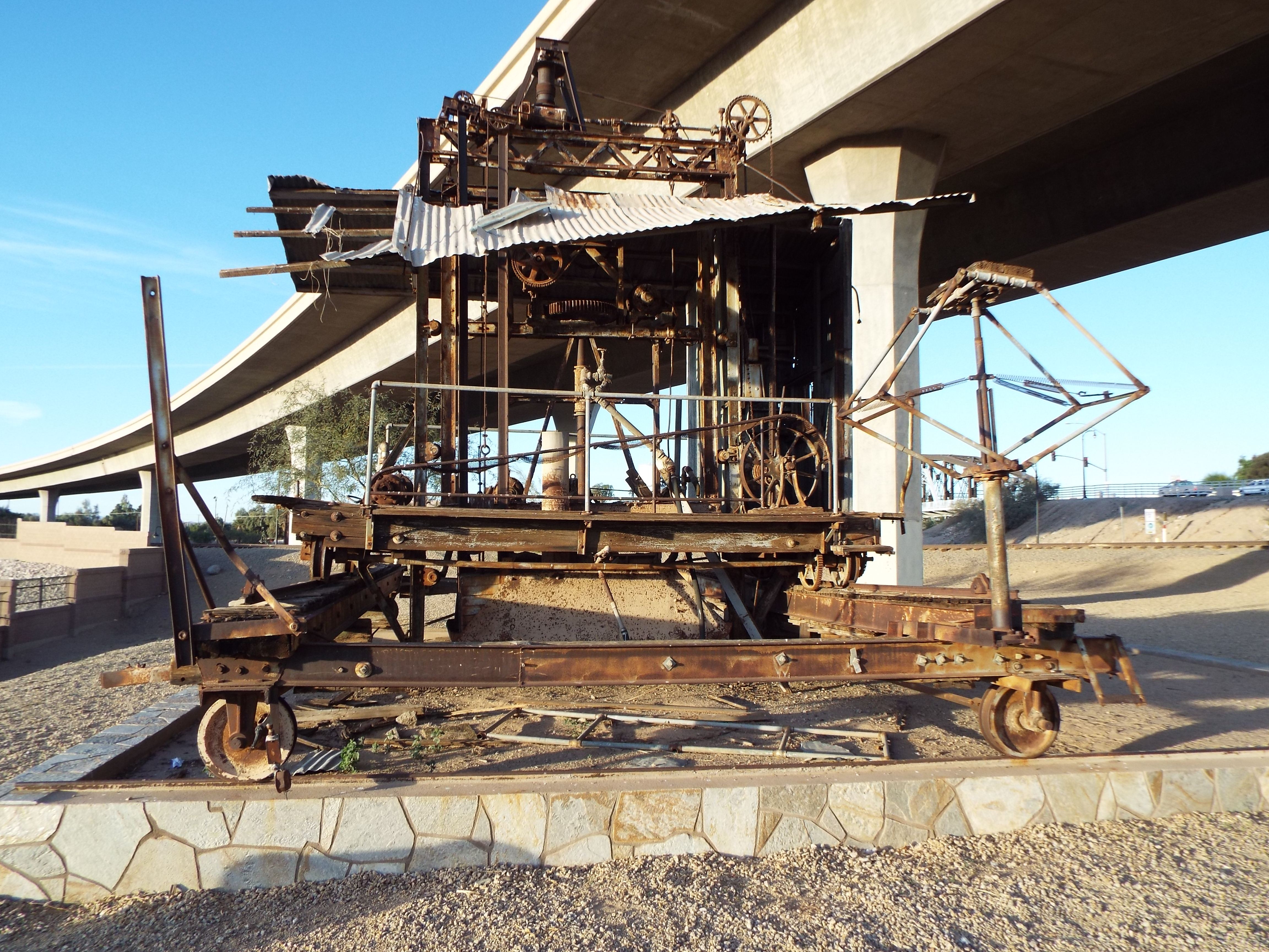 The Blaisdell Slow Sand Filter Washing Machine – Built in 1902 and located in Gateway Park in N. Jones St.. It was listed in the National Register of Historic Places in January 18, 1979, ref. # 79000430. The Blaisdell Slow Sand Filter Washing Machine is a device invented by Hiram W. Blaisdell to wash sand filters used in the treatment of drinking water.